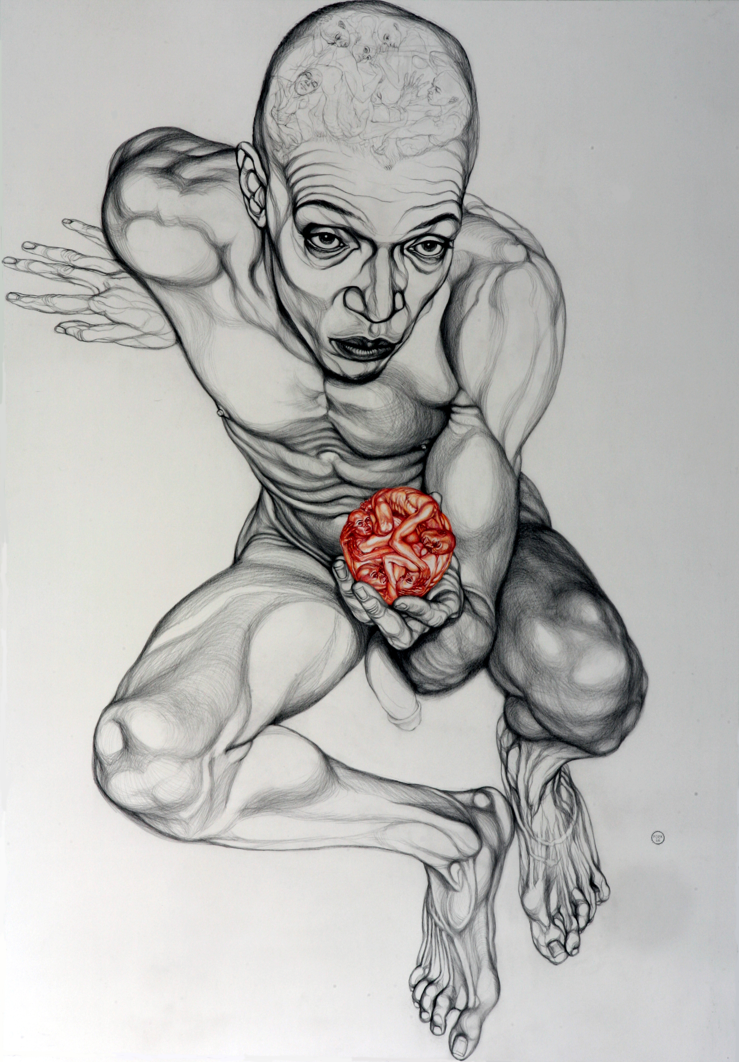 Sol Kjøk, "Waiting for the Sun". Graphite and colored pencil on paper, 56" x 40"